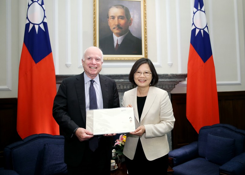 President Tsai meets with a delegation led by US Senate Armed Services Committee Chairman John McCain. (2016/06/05)